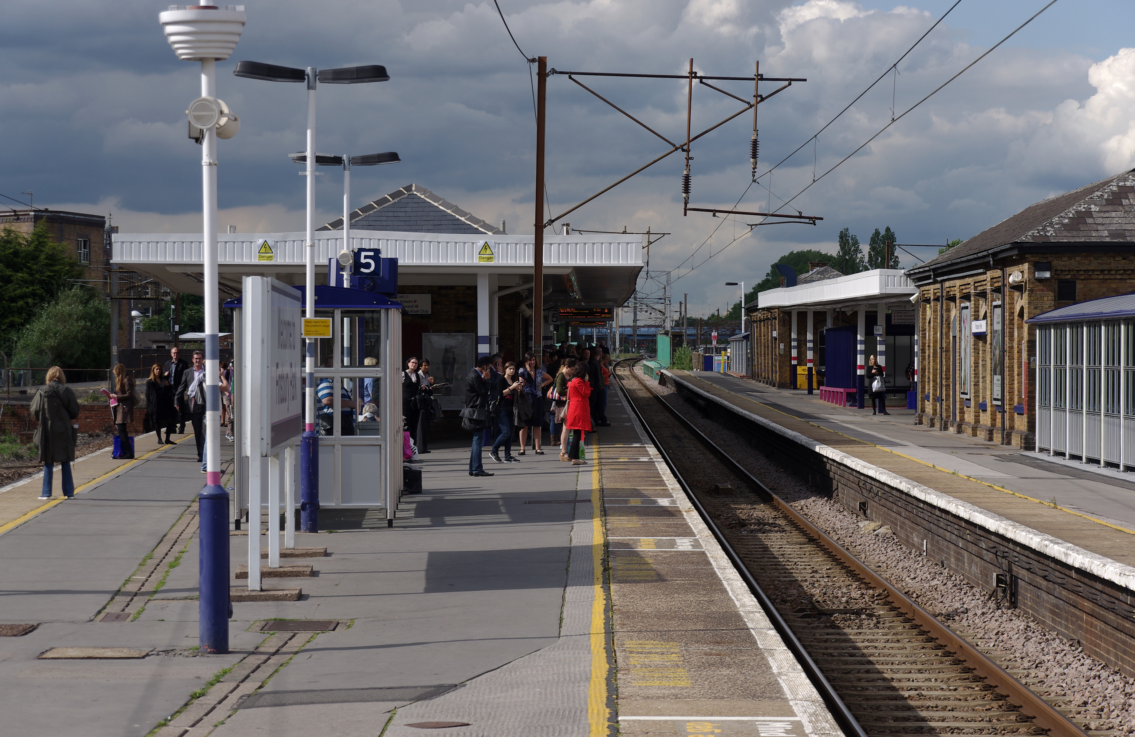 Finsbury Park station, looking north.